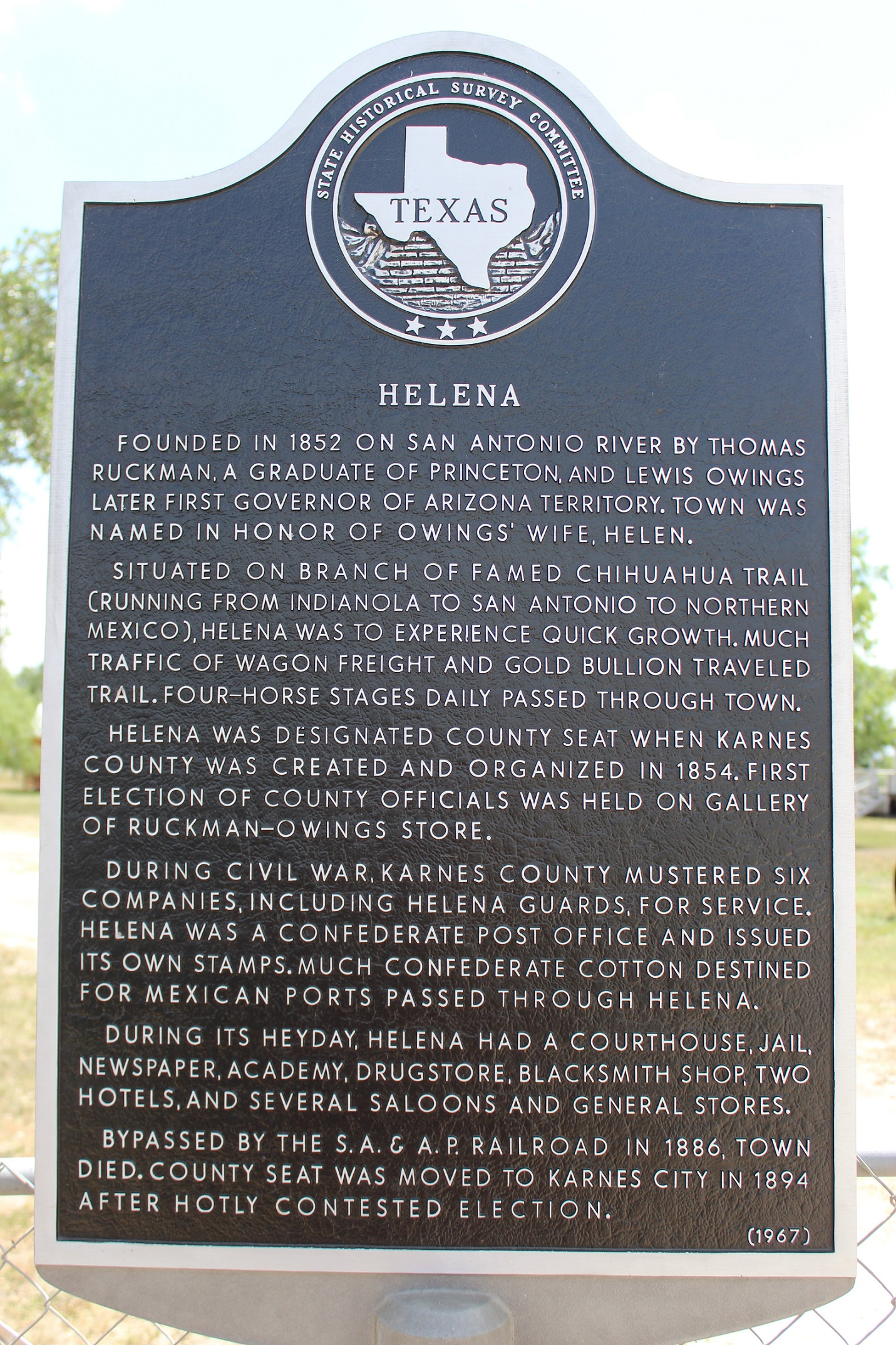 Helena. Founded in 1852 on San Antonio River by Thomas Ruckman, a graduate of Princeton, and Lewis Owings, later first governor of Arizona Territory. Town was named in honor of Owings' wife, Helen. Situated on branch of famed Chihuahua Trail (running from Indianola to San Antonio to Northern Mexico), Helena was to experience quick growth. Much traffic of wagon freight and gold bullion travelled trail. Four-horse stages daily passed through town. Helena was designated county seat when Karnes County was created and organized in 1854. First election of county officials was held on gallery of Ruckman-Owings Store. During Civil War, Karnes County mustered six companies, including Helena Guards, for service. Helena was a Confederate post office and issued its own stamps. Much Confederate cotton destined for Mexican ports passed through Helena. During its heyday, Helena had a courthouse, jail, newspaper, academy, drugstore, blacksmith shop, two hotels, and several saloons and general stores. Bypassed by the S.A. & A.P. Railroad in 1886, town died. County seat was moved to Karnes City in 1894 after hotly contested election. #2428